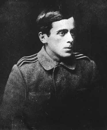 Sergey Efron